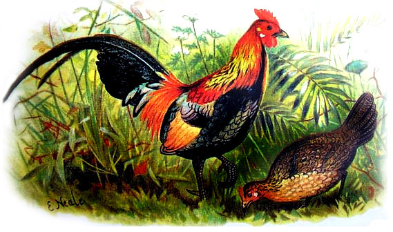 Red Junglefowl